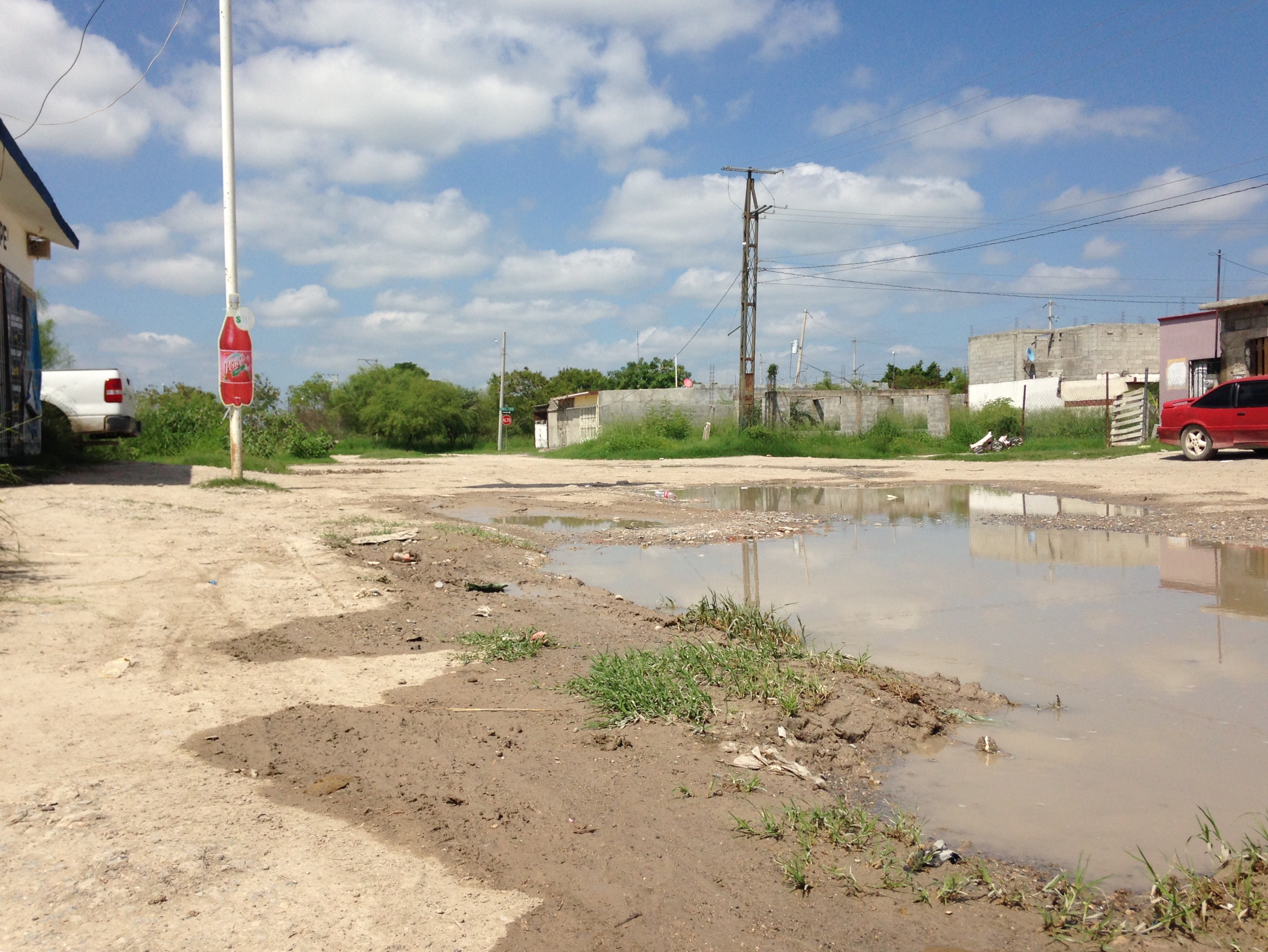 Marginal and poor area of the popular neighborhood in Victoria City, state of Tamaulipas.